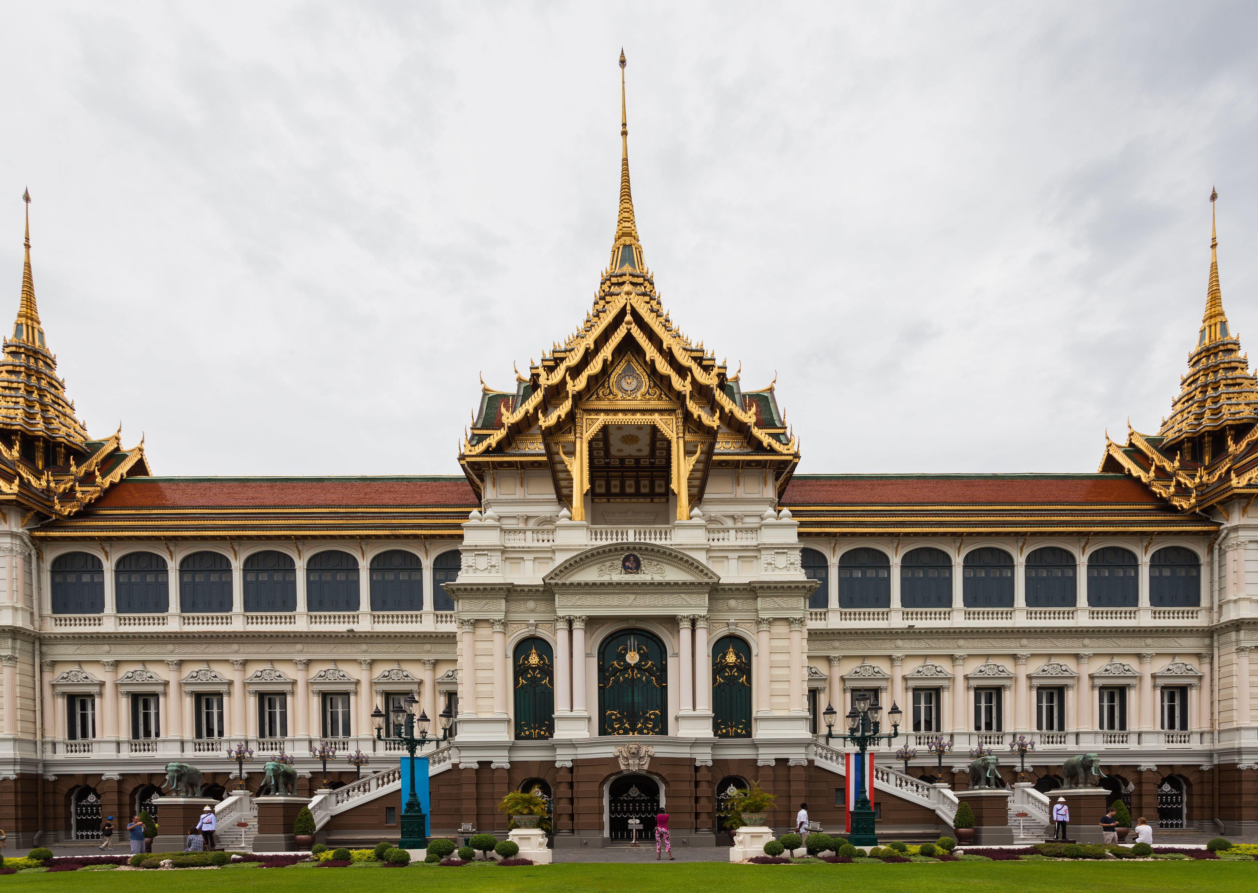 Gradn Palace, Bangkok, Thailand